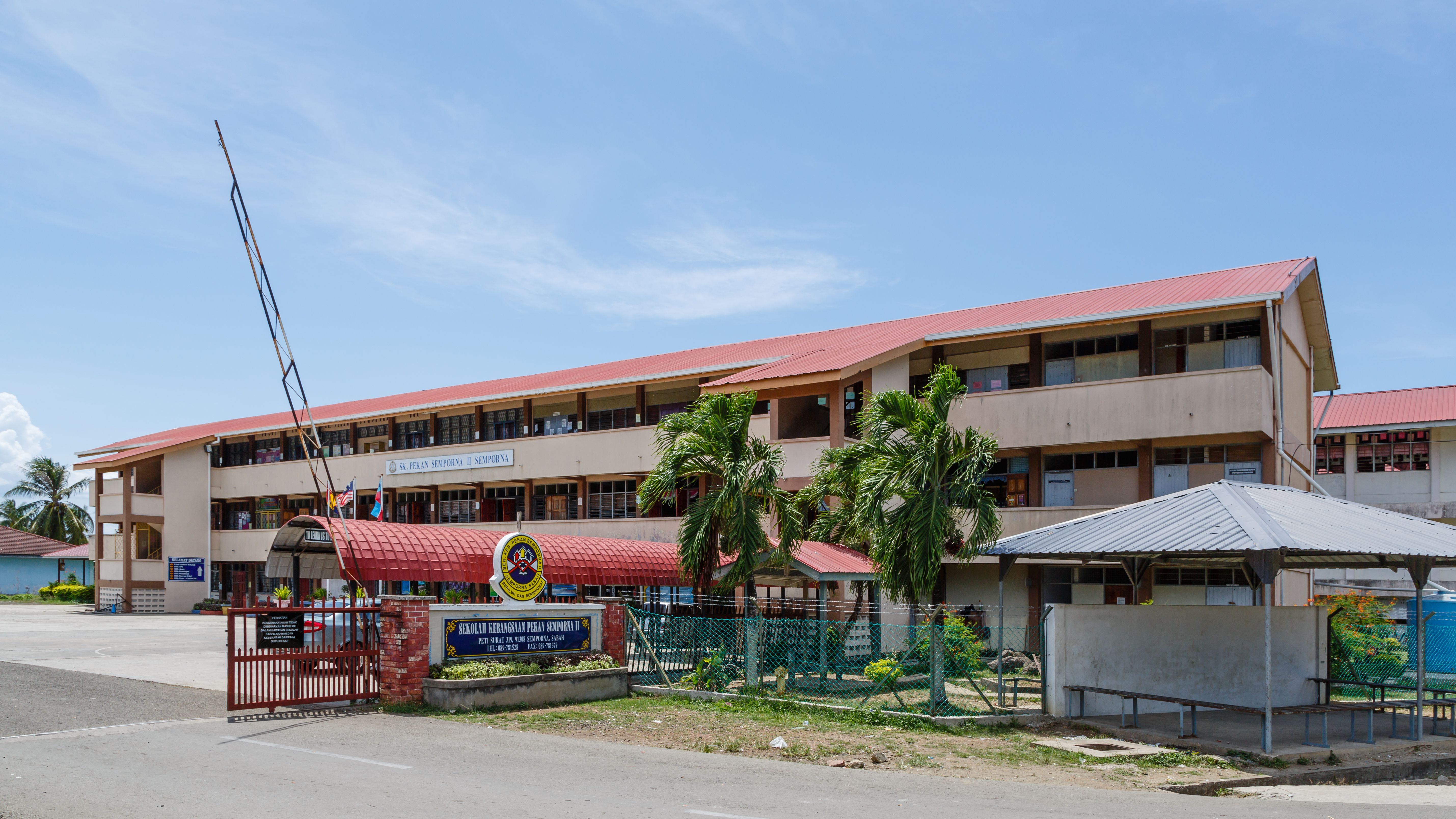 Semporna, Sabah: SK Pekan Semporna II